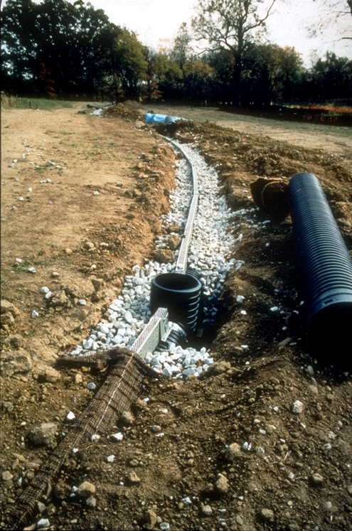 Image of a level spreader installation to reduce erosion and water pollution on a construction site